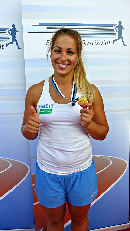 Kati Ojaloo - 2014 Estonian Championship at Kadrioru Stadium